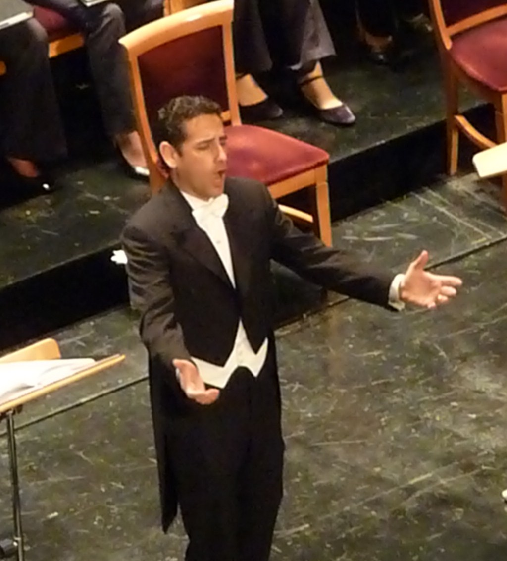 Juan Diego Flórez, Peruvian tenor.